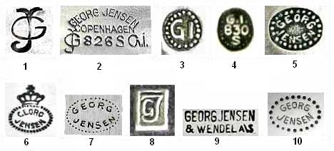 Designer marks of Georg Jensen